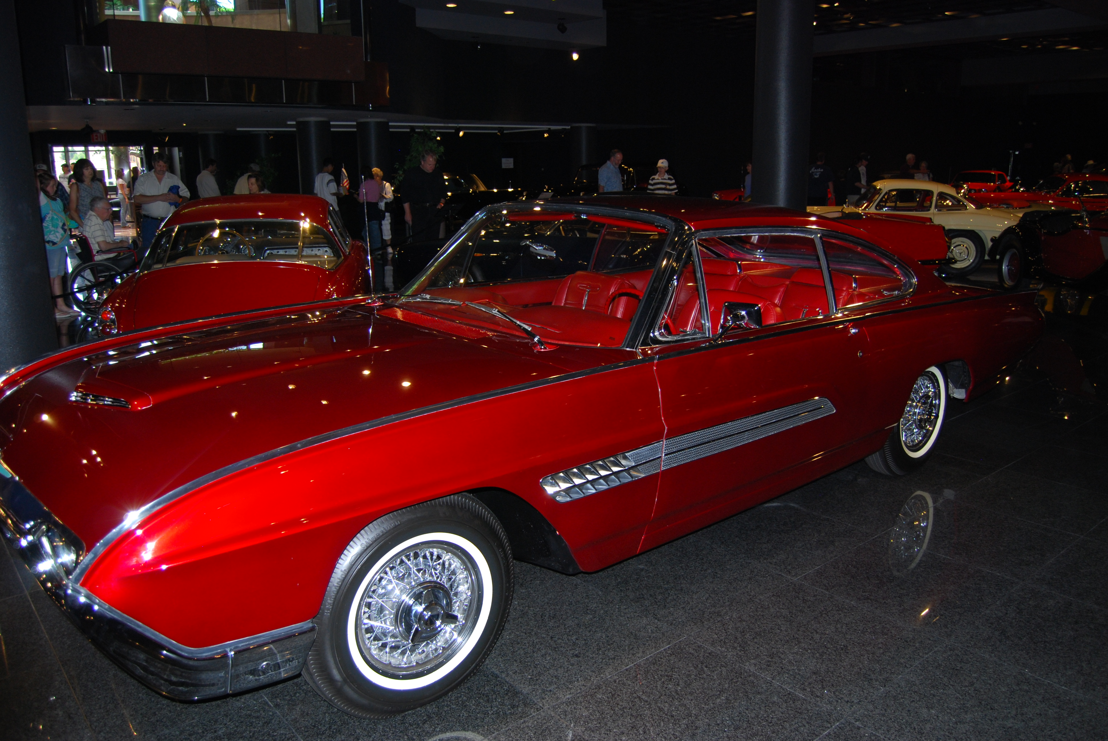 This fastback was designed in-house by Ford, started life as a 1962 model, and was updated with 1963 parts before being shown publicly. It is the rarest of Thunderbirds, only one made. DSC_0666